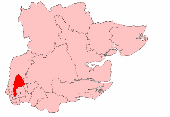 A map of Woodford constituency within Essex, as it existed from 1945 to 1950.